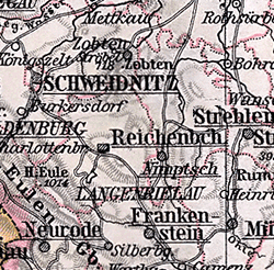 Detail from a map of Silesia.